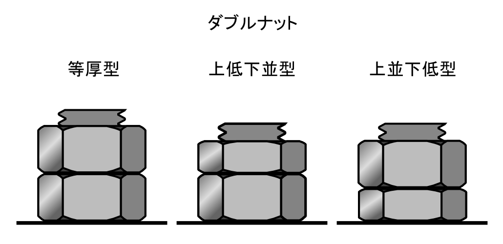 Screw (bolt) 22A-J